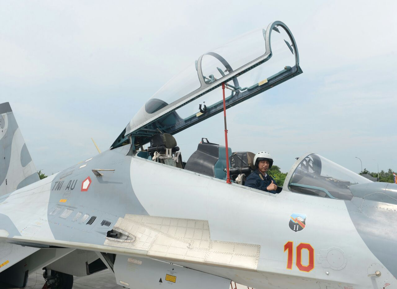 Indonesian President Joko Widodo in a TNI AU Sukhoi SU-30 aircraft, during a 2016 military exercise at Natuna